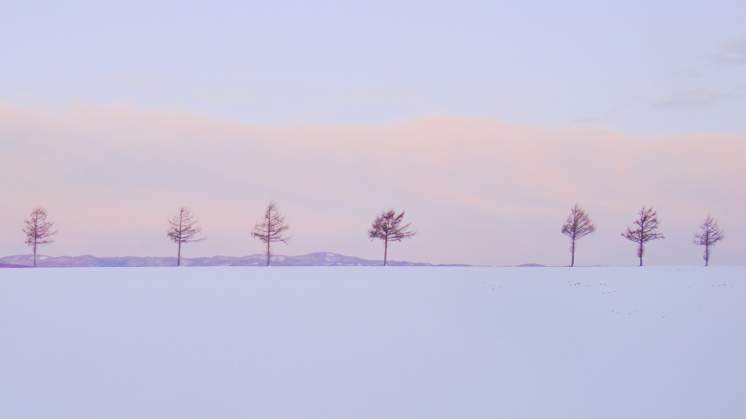 A winter morning at Märchen no oka in Memanbetsu, Ozora Town, Hokkaido, Japan